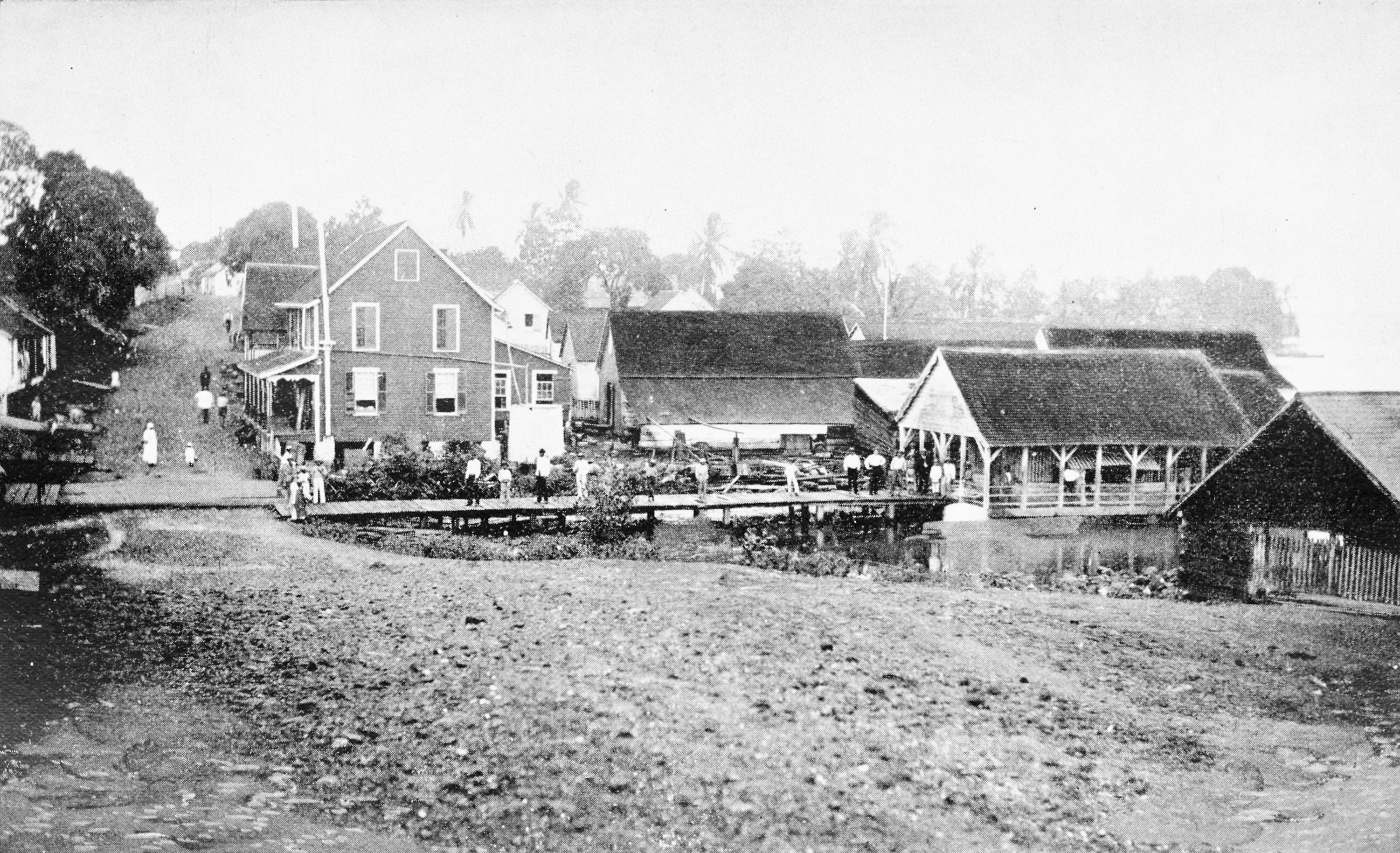 Bluefields Nicaragua